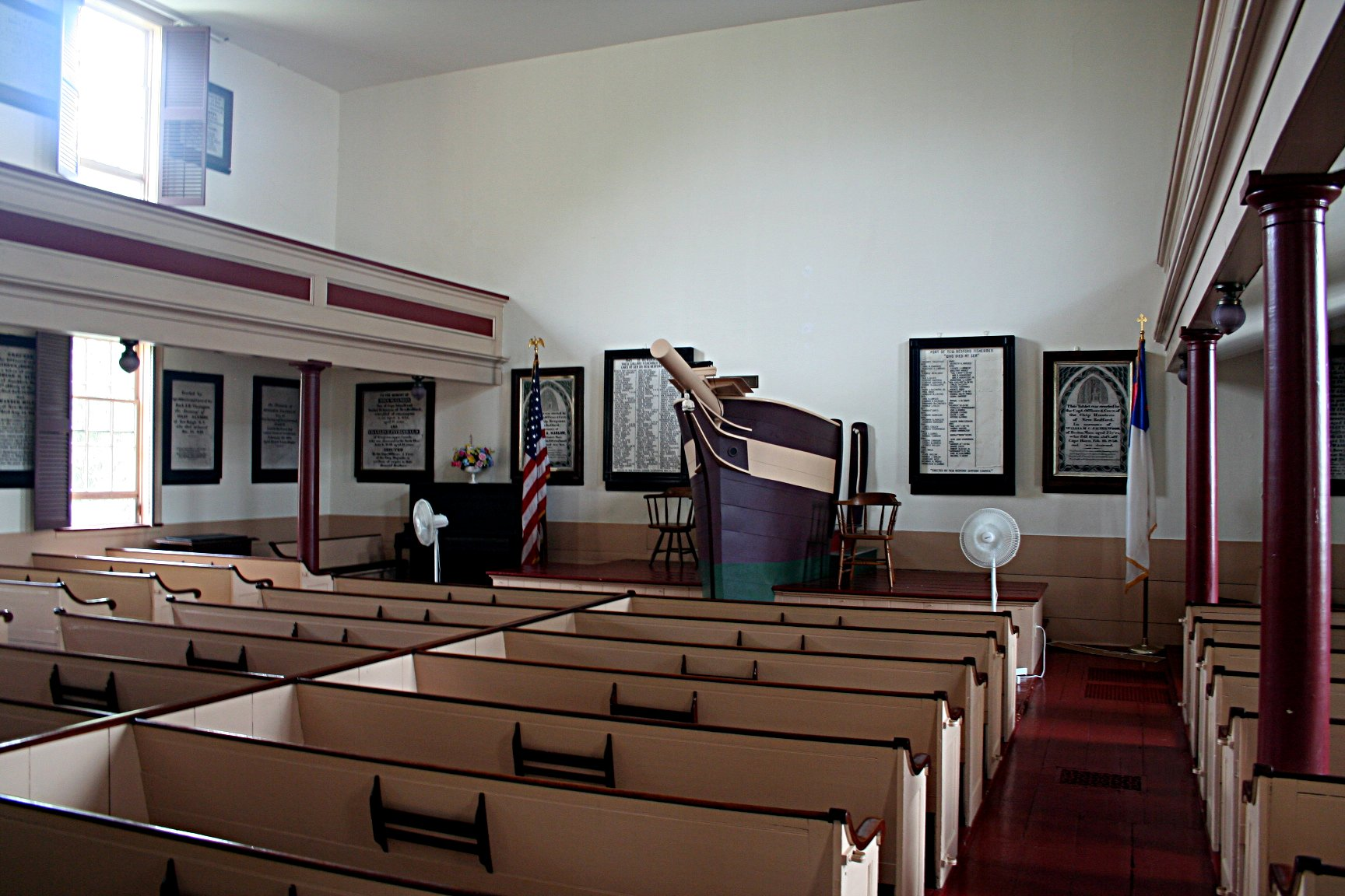 Photograph of the interior of the Seamen's Bethel in the New Bedford Whaling National Historical Park in New Bedford, Massachusetts, United States of America taken by Rolf Müller.